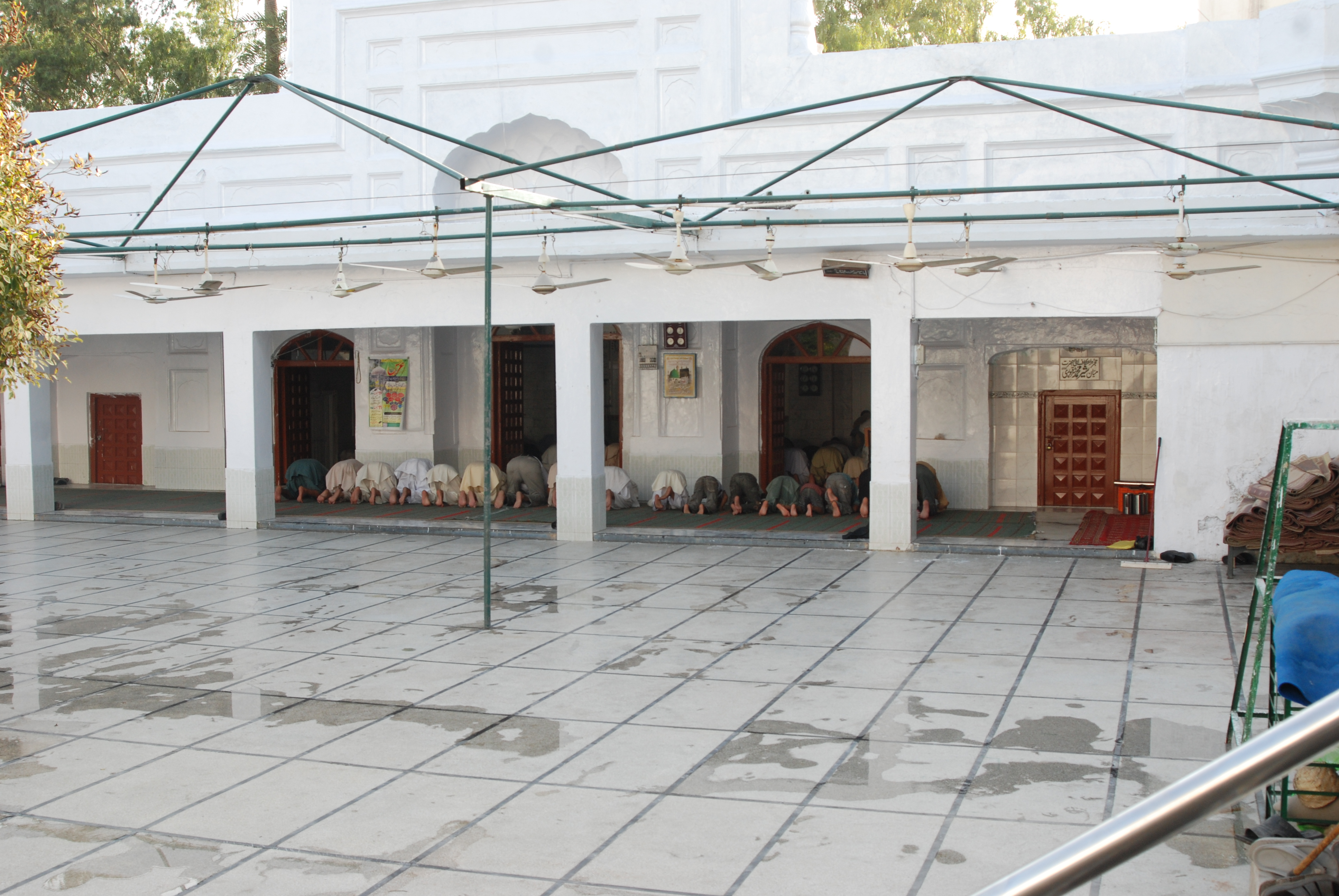 Masjid of the Darbar of Hazrat Ishaan after the renovation of his descendant Hazrat Khwaja Sardar Sayyid Mir Sultan Masood Dakik